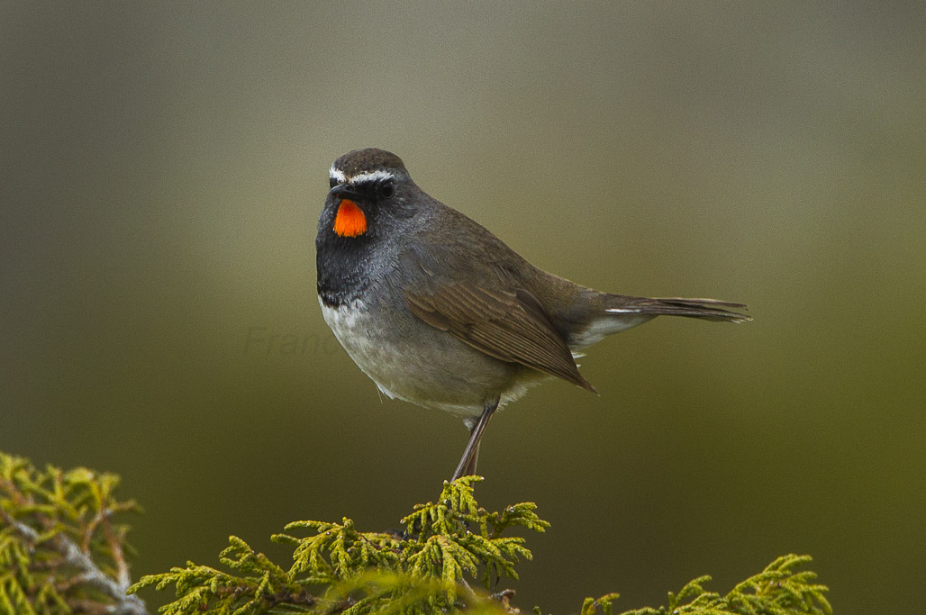 White-tailed Rubythroat - Kazakistan_S4E3569